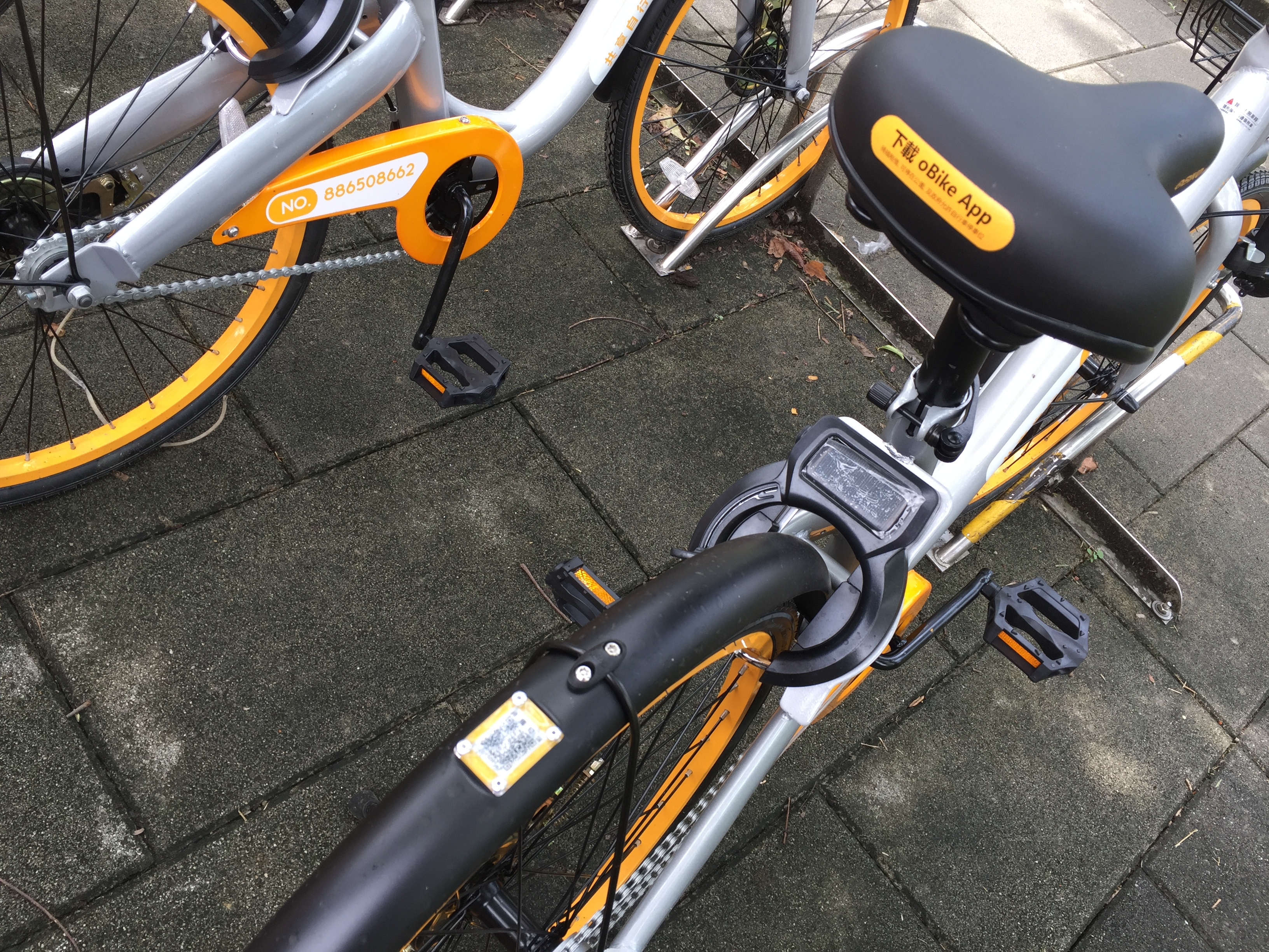 oBike的鎖與QR code